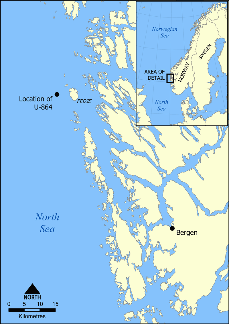 This map shows the location of the World War 2 German submarine U-864. It was sunk here by the British submarine HMS Venturer in February 1945.